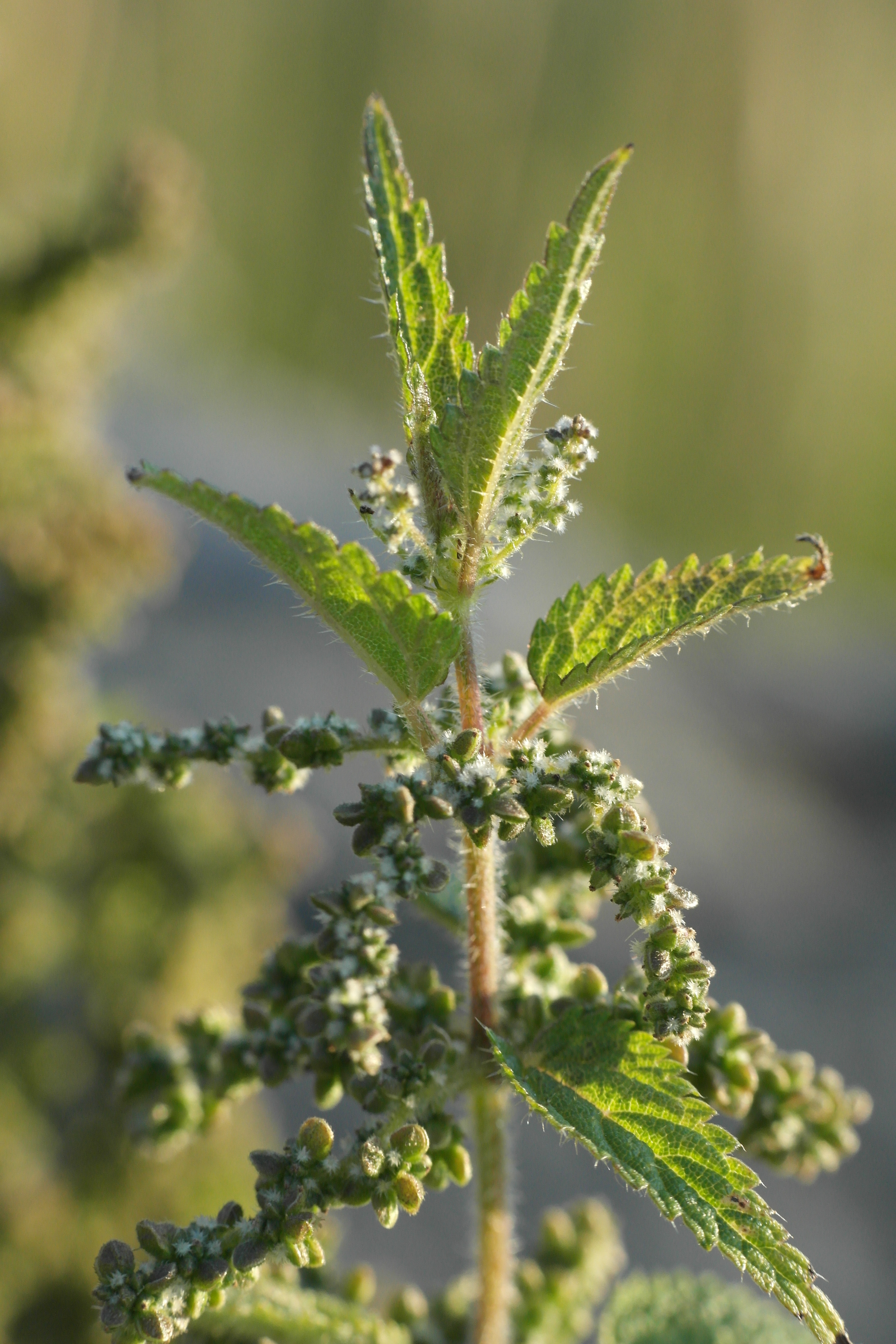 Urtica dioica